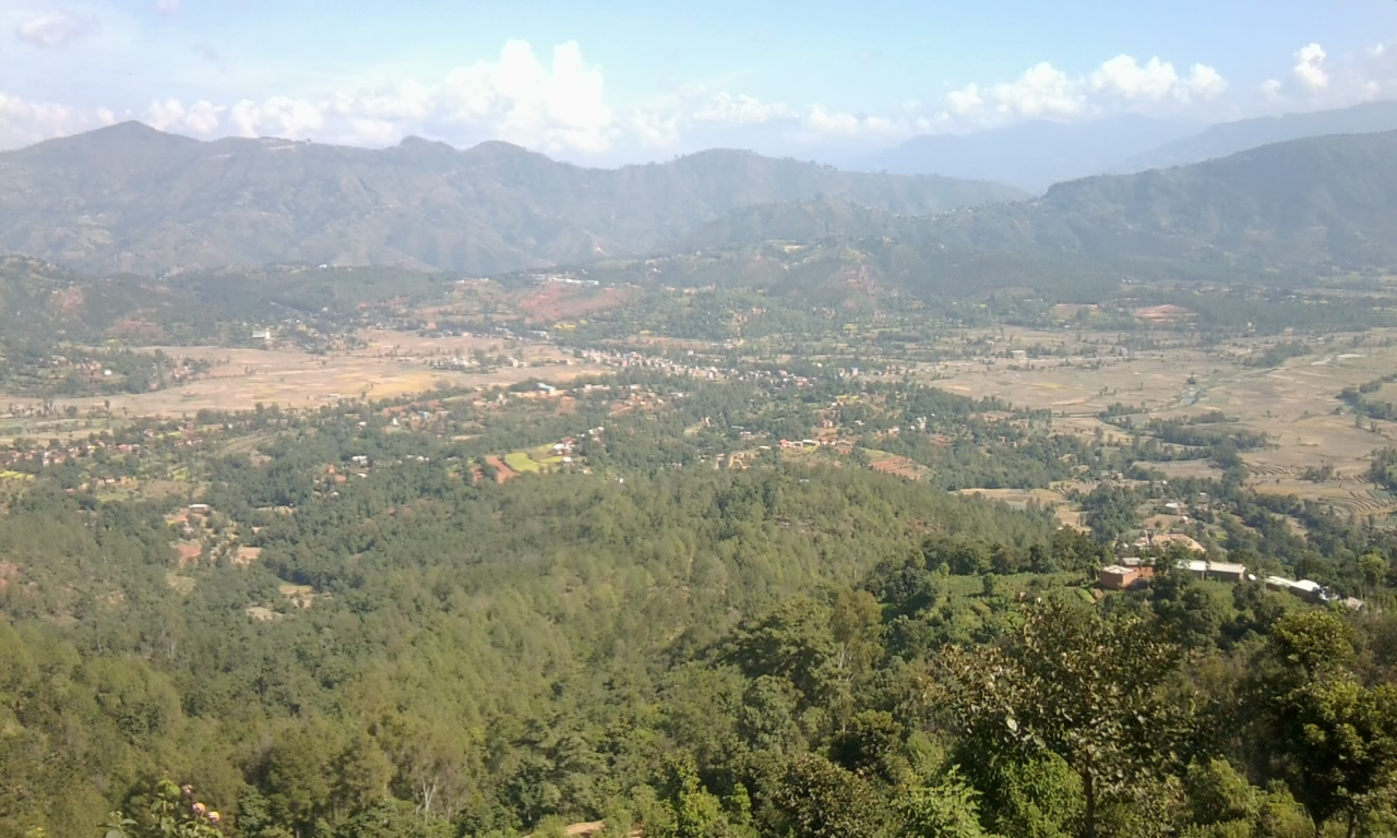 Panchkhal Valley